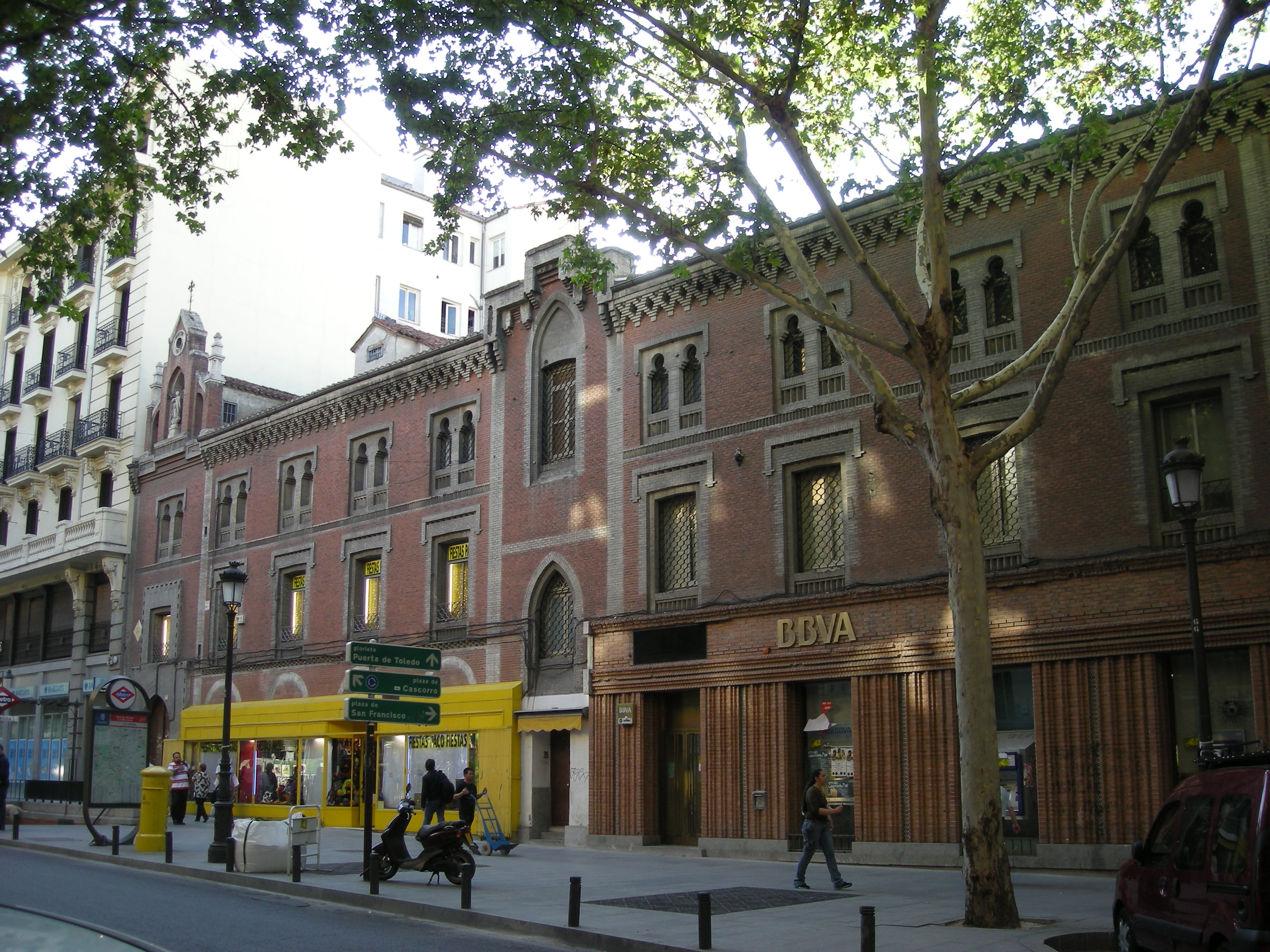 Convento de la Latina in Madrid (Spain). Projected in 1904 by Juan Bautista Lázaro de Diego and built between 1904 and 1907.